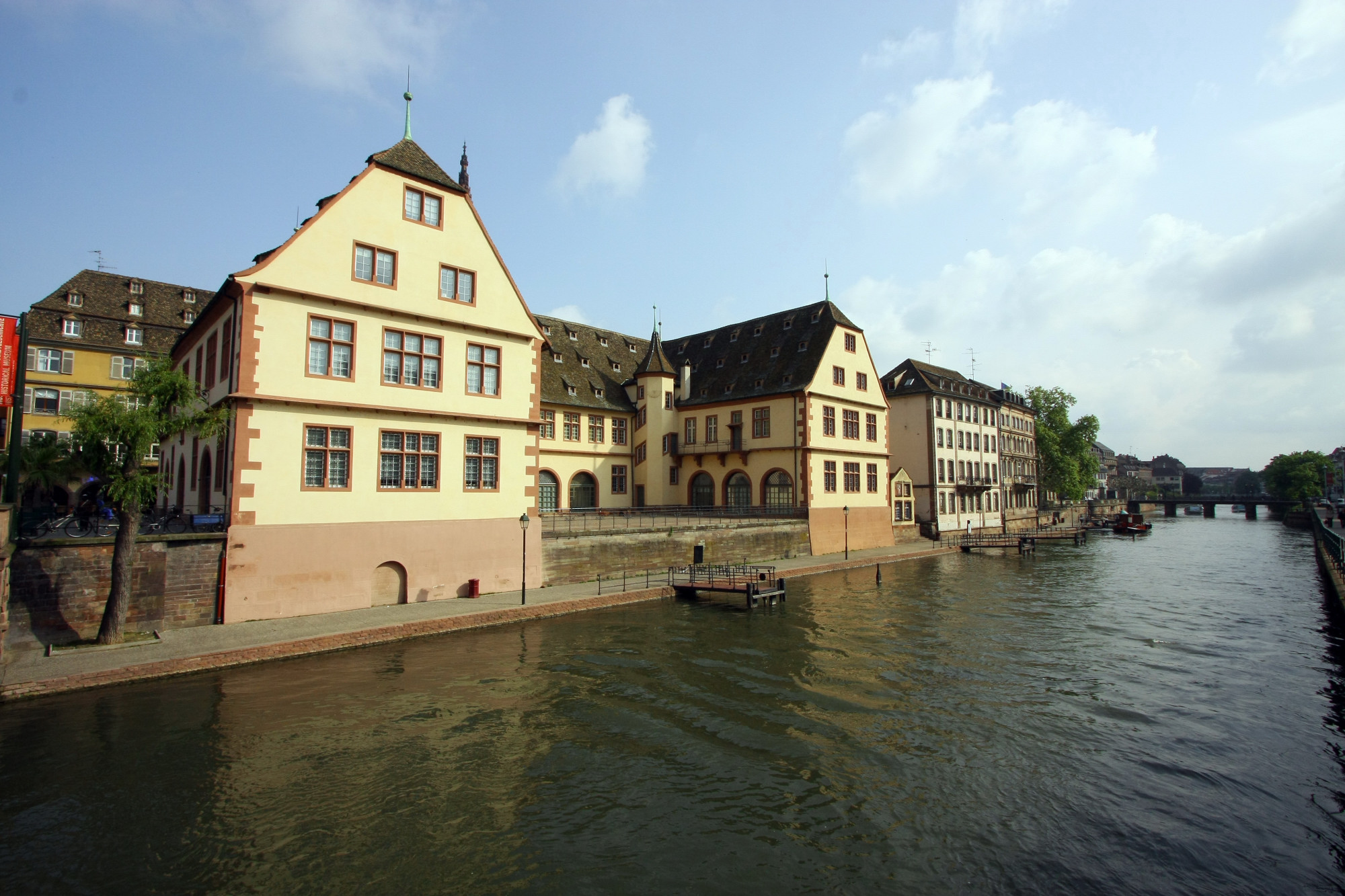 030 Strasbourg